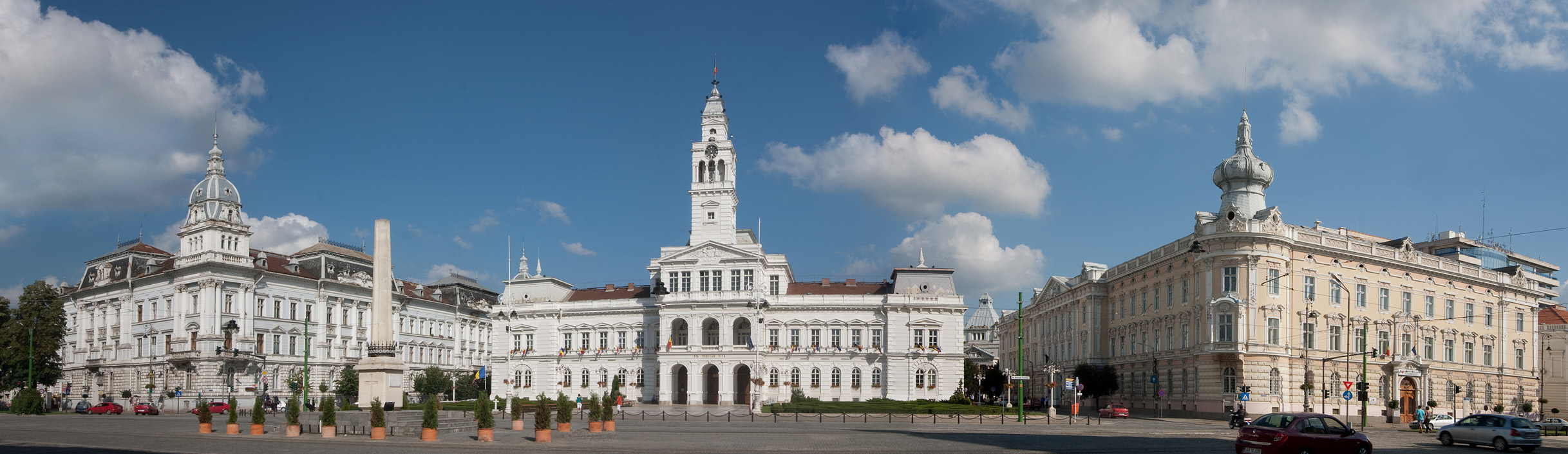 Town hall in Arad, Romania